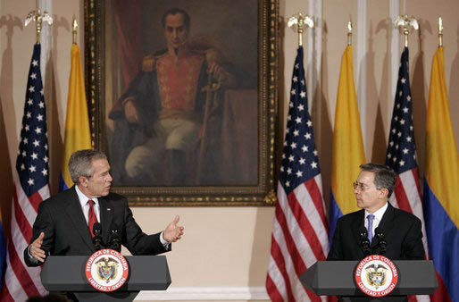 President George W. Bush and President Alvaro Uribe address the press Sunday, March 11, 2007, in Bogotá, Colombia. White House photo by Paul Morse.